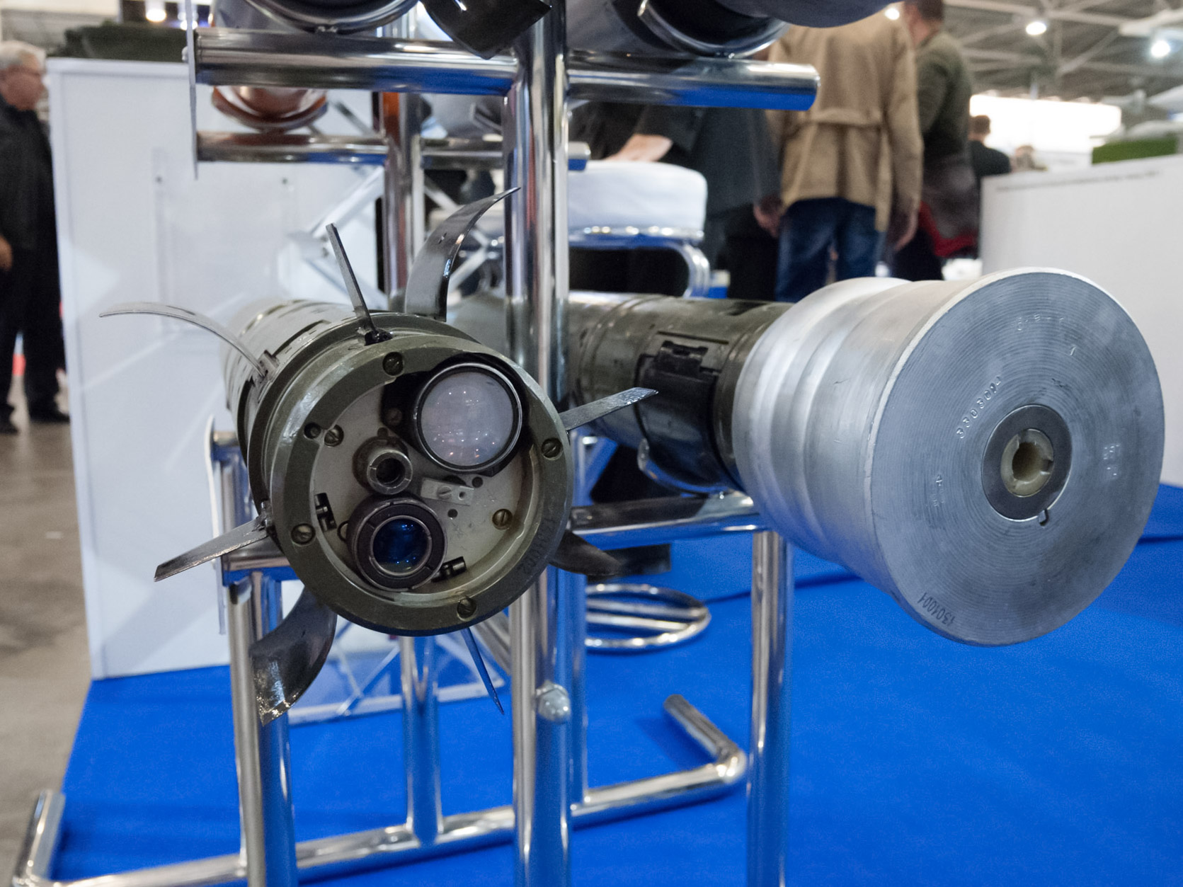 Kombat guided missile (Ukraine)